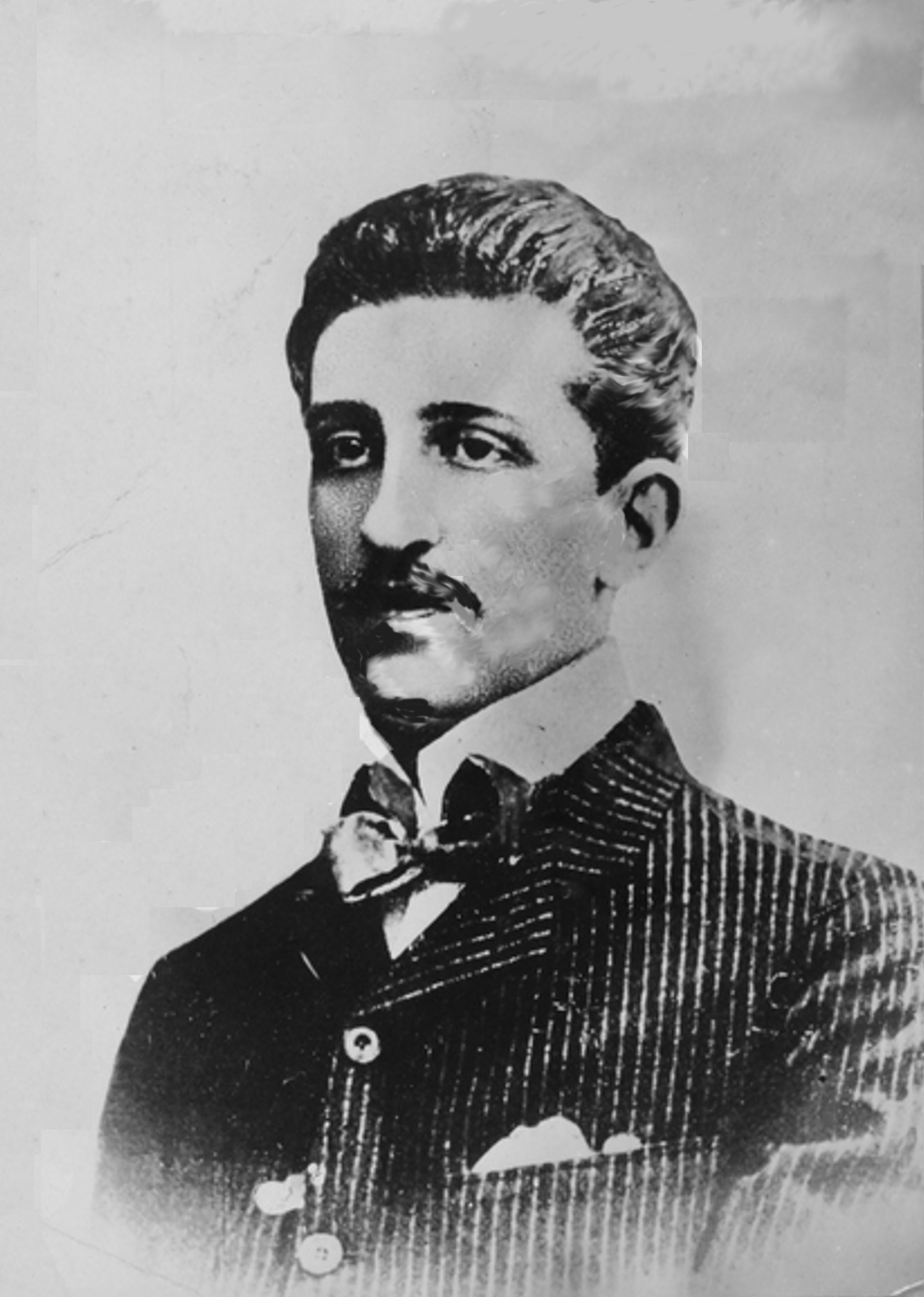 Henri-Léon-Gustave-Charles Bernstein (20 June 1876, Paris – 27 November 1953, Paris) was a French playwright associated with Boulevard theatre.